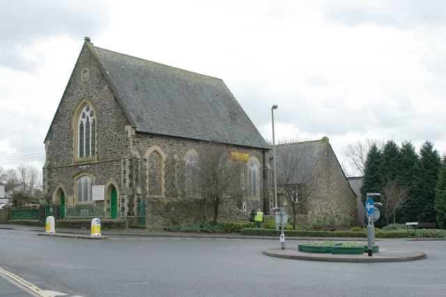 Ivybridge Baptist Church, Exeter Road, Ivybridge, Devon, seen from the northeast